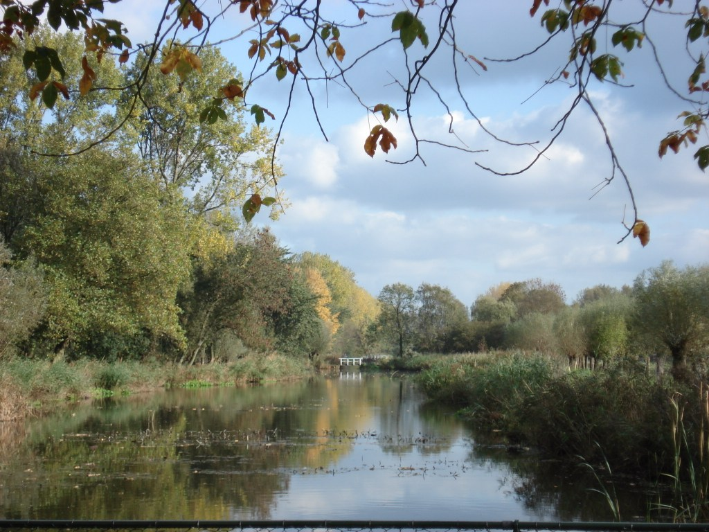 A pool in the Delftse Hout, the public park near Delft. The atmosphere is Impressionistic. Photo made in 2006 by F.H. Kreuger, inhabitant of Delft.